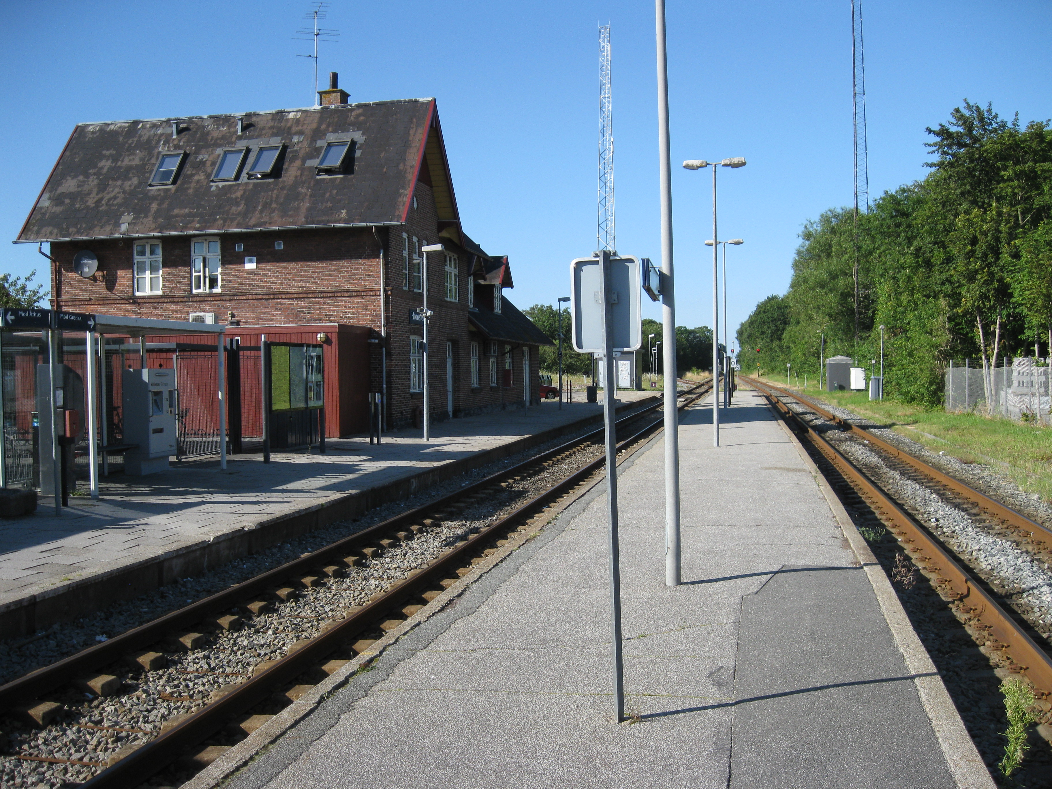 Hornslet train station, Denmark